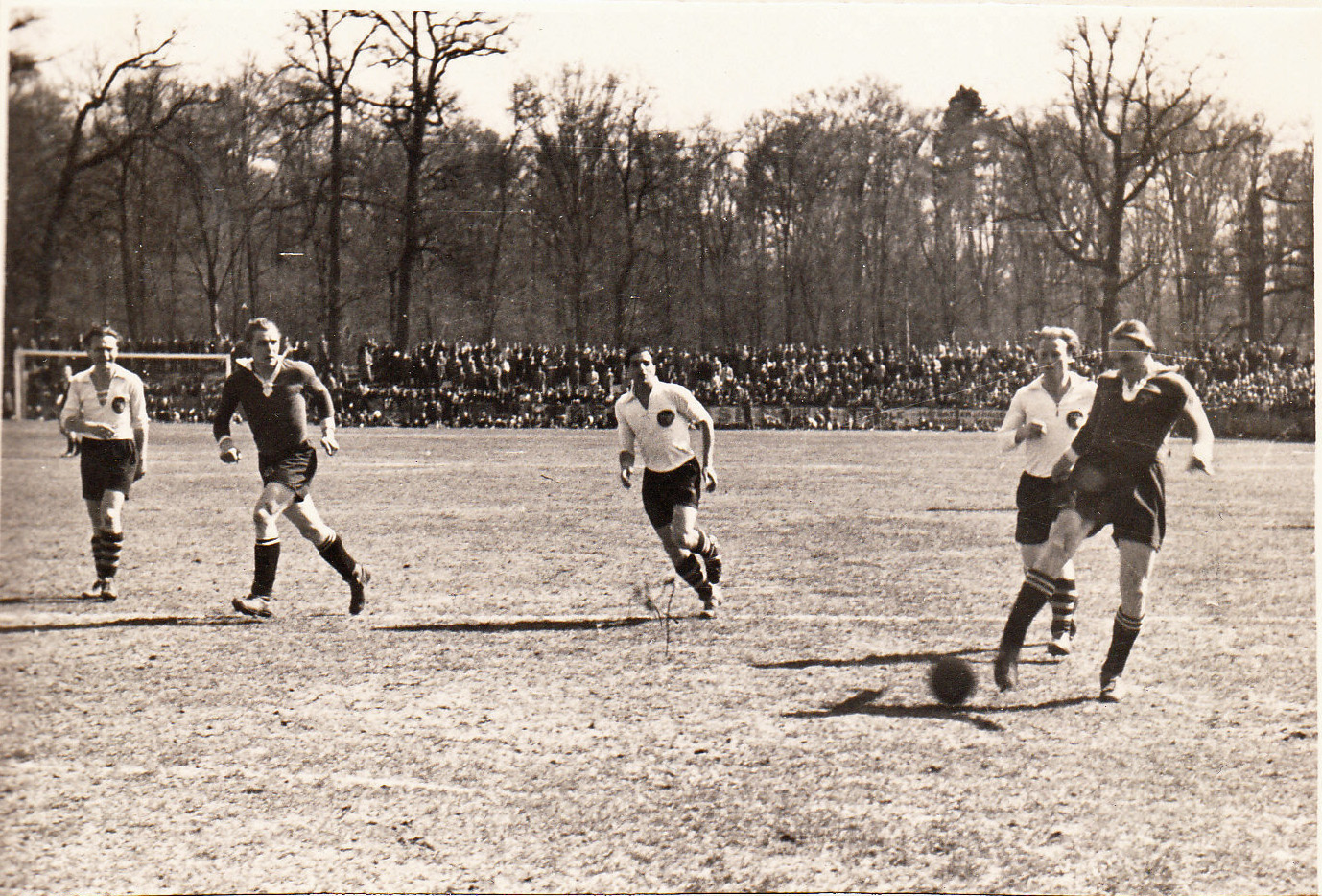 Match between Karlsruher FV and Eintracht Frankfurt